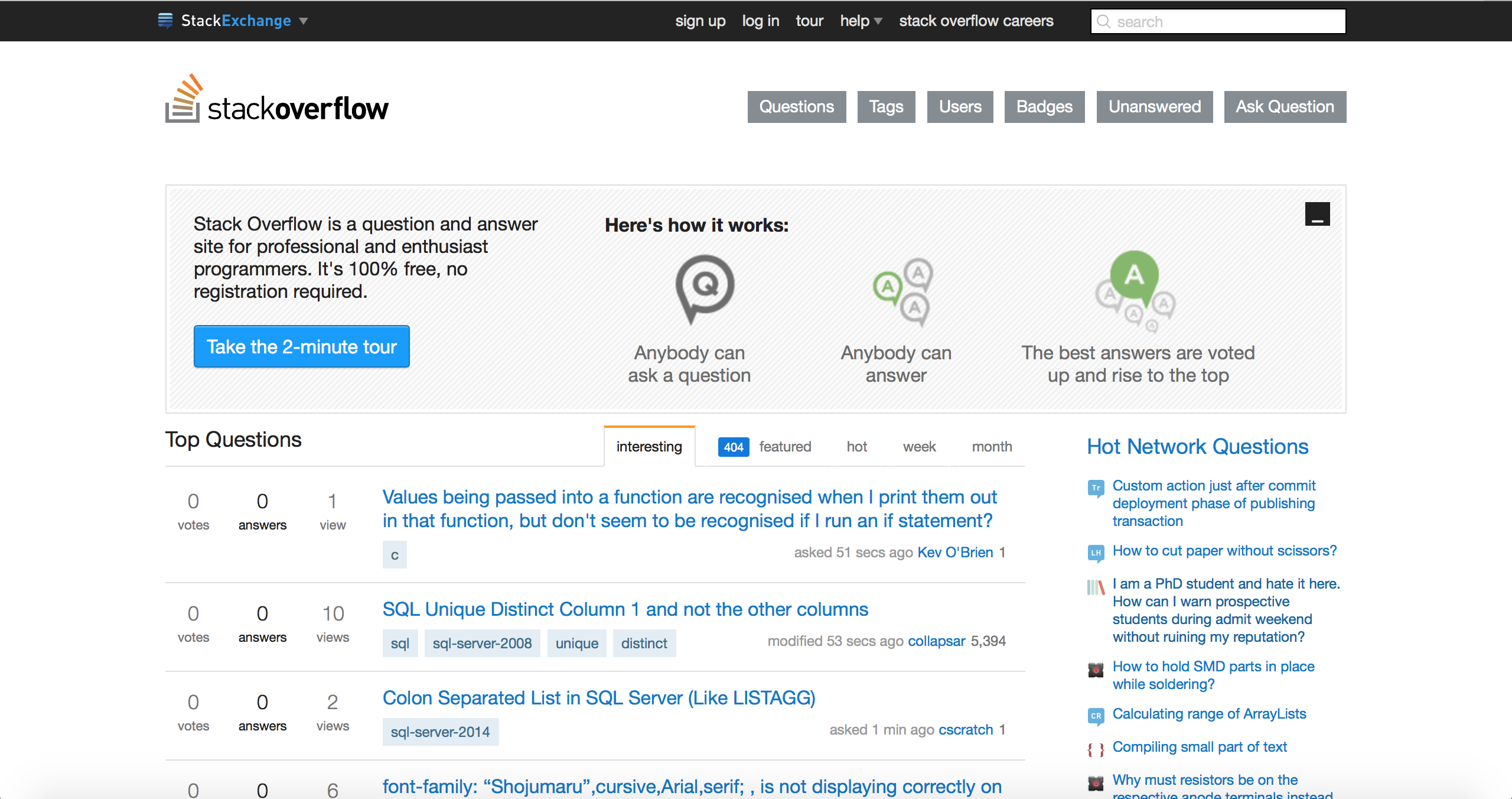 Screenshot of the Stack Overflow homepage